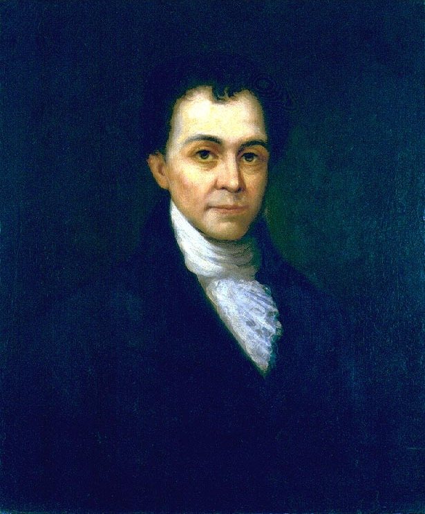 Paul Hamilton, Secretary of the Navy, 15 May 1809 - 31 December 1812